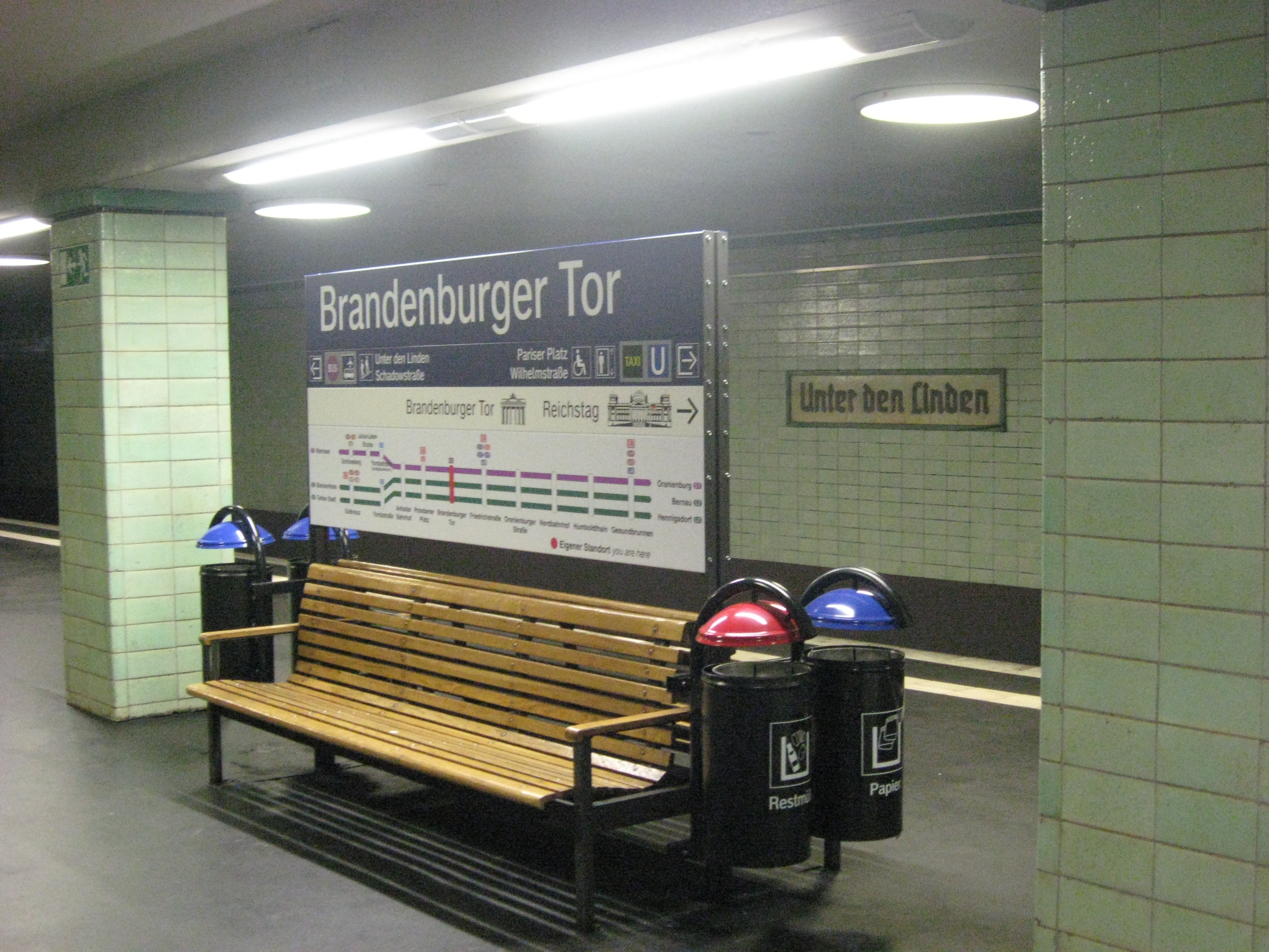 Seats and sign with the new name Brandenburger Tor on the platform of the station of the S-Bahn note the old name on the wall